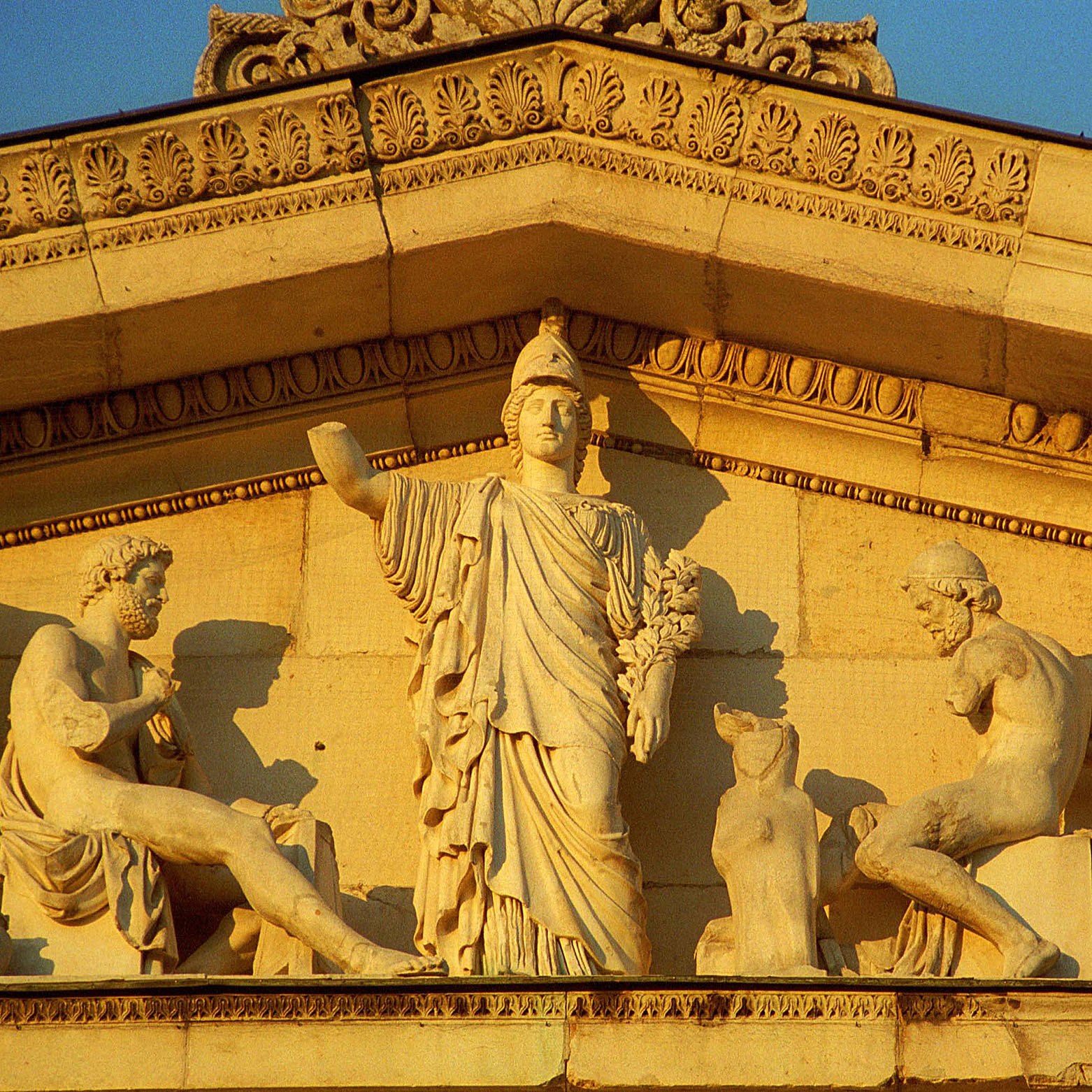 Pediment of Munich Glyptothek with three sculptures by Ernst Mayer (partly destroyed)